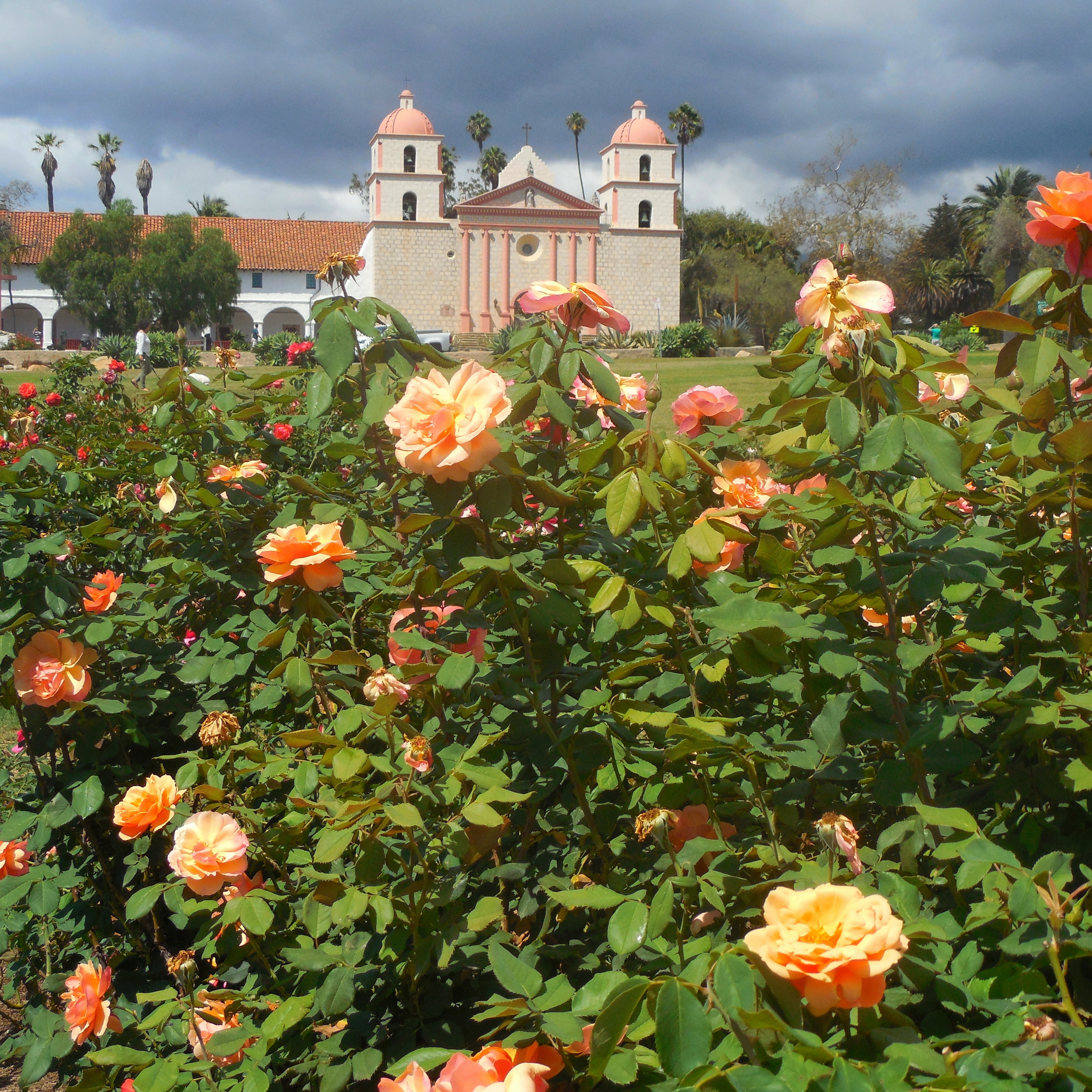 A.C. Postel Rose Garden in Mission Park, Santa Barbara, California, 2015